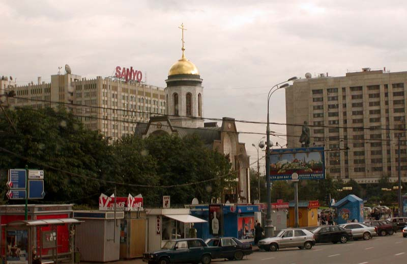 Photo of Moscow with Sanyo sign and Lenin statue